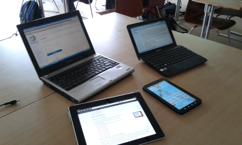 Tablets, Laptops, iPads. Devices for mobile learning. Bring your own device BYOD.